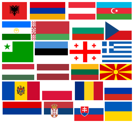 Patchwork of the flags of Wikipedia language versions participating in the meta:Wikimedia CEE Spring 2016 contest.